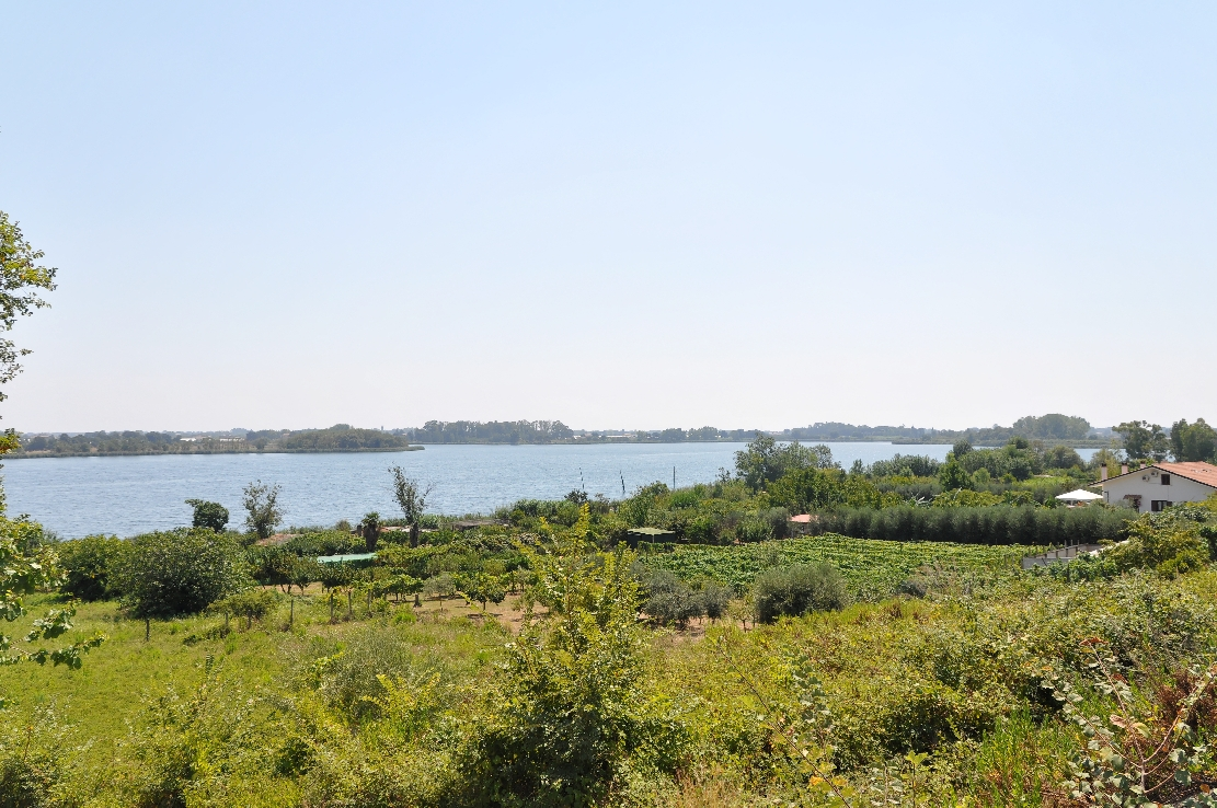 Lake Fondi 2012 Dieses Foto entstand in Zusammenarbeit mit Stadtbesichtigungen.de Die Seiten Stadtbesichtigungen.de, der dazugehörige Reise Blog sowie die Facebookseite: Stadtbesichtigungen Rom dürfen dieses Bild für Ihre Veröffentlichungen ohne den Hinweis auf Wikipedia, Commons bzw der Lizenz verwenden. Die Verantwortlichen habe von mir (Ra Boe) die Originaldaten zur freien Verfügung übermittelt bekommen. Foro Appio Mansio Hotel